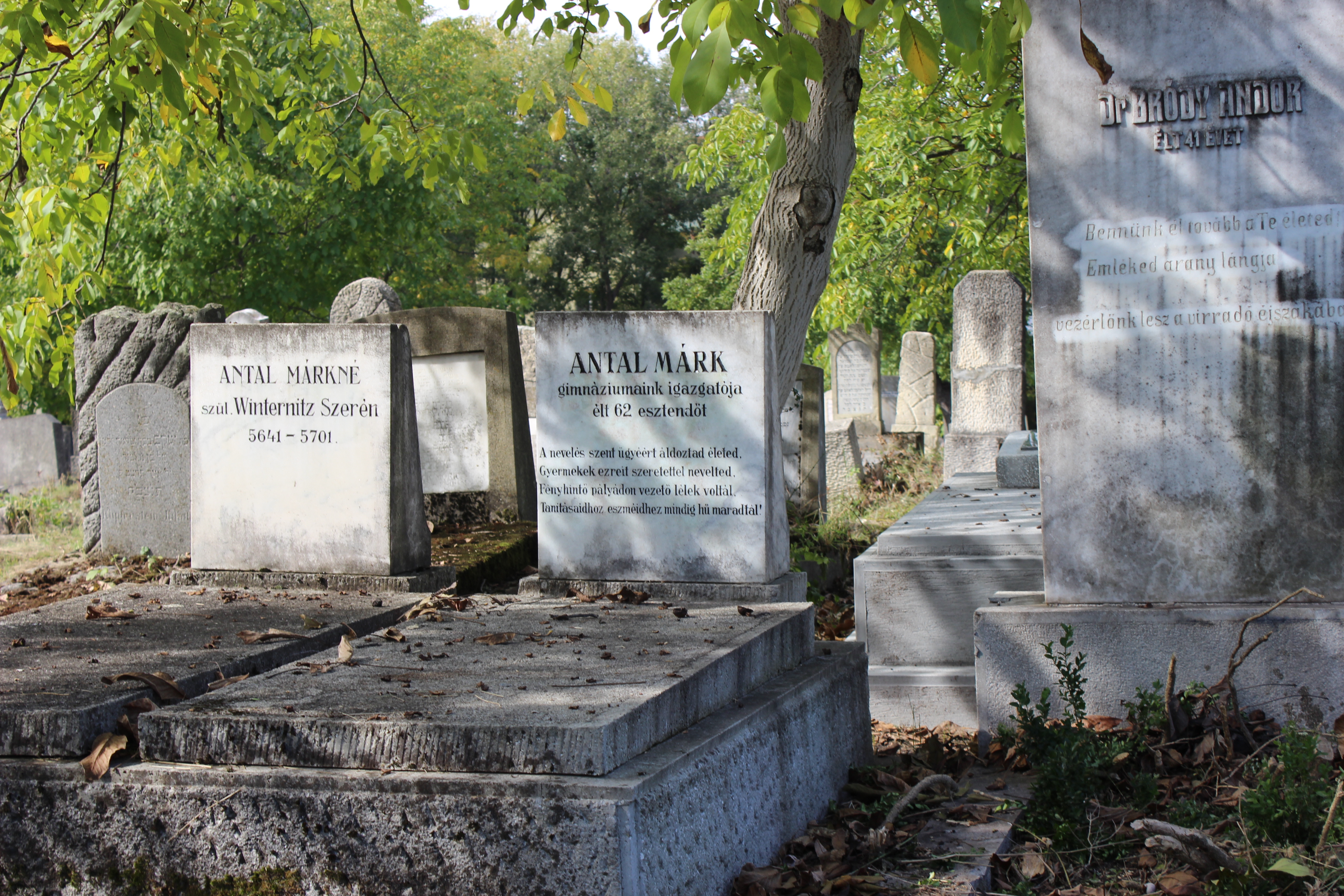 Márk Antal, grave in Old Jewish cemetery, Cluj-Napoca, Cluj County, Romania